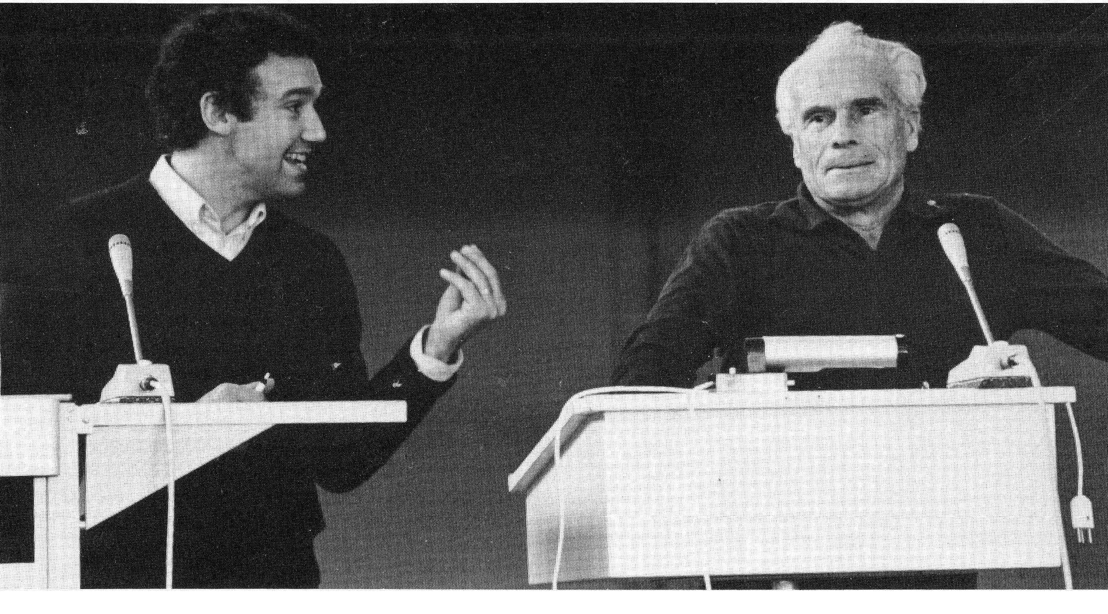 Arturo Hotz, 1981